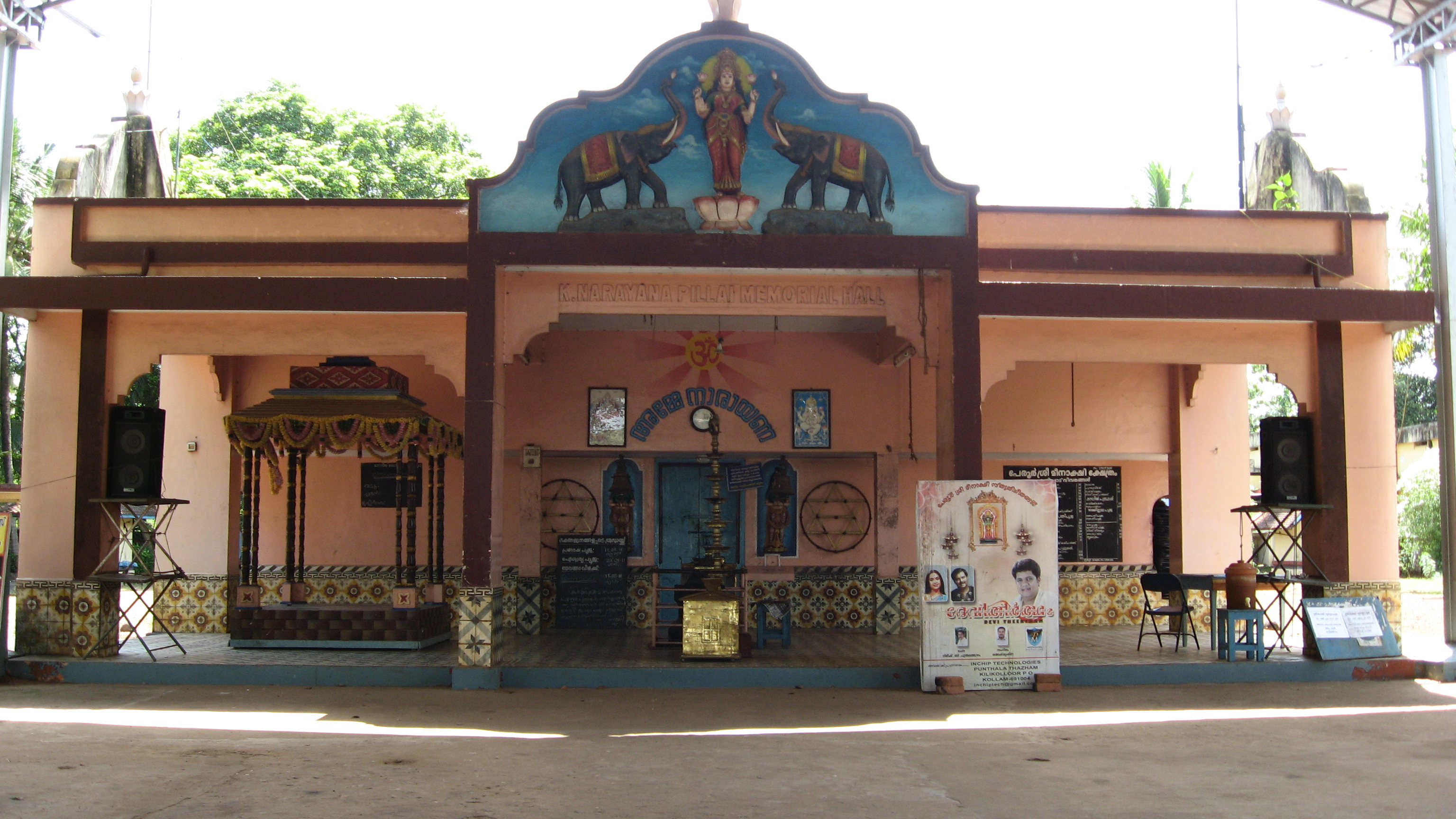 Peroor sree meenakshi temple